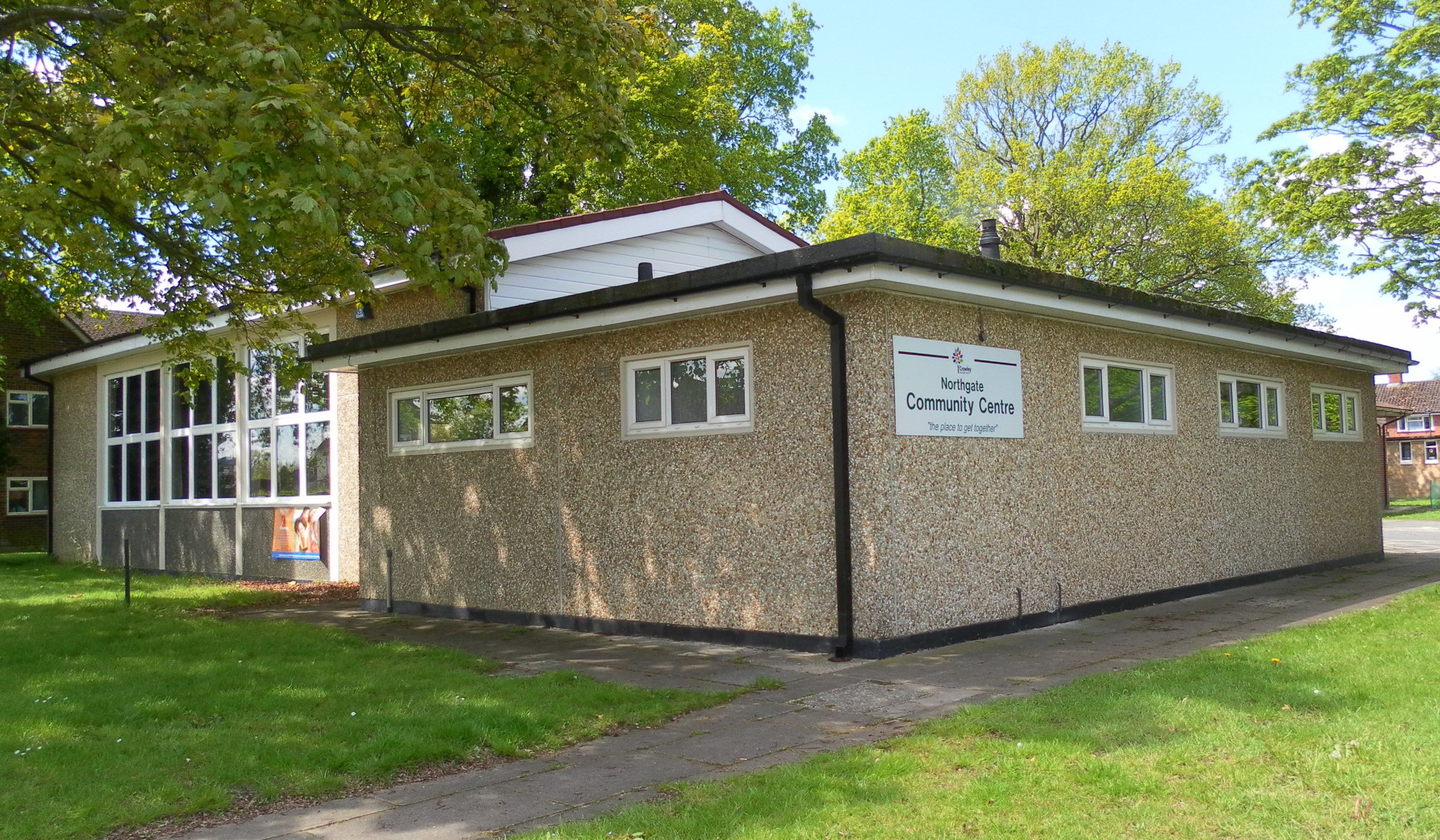 Northgate Community Centre, Woodfield Road, Northgate, Crawley, West Sussex, England. The multipurpose community centre at the heart of the Northgate neighbourhood of Crawley New Town. Built in the 1950s.